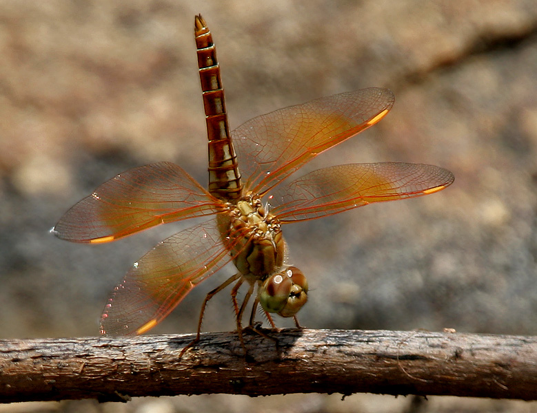 Ditch Jewel Brachythemis contaminata at Pocharam lake, Andhra Pradesh, India.